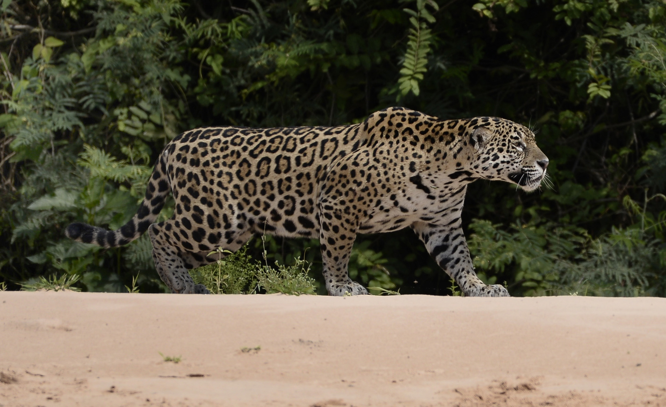 20151107 Nos ultima dia em Pantanal do norte esta tempo. En jaguar som haft uppsikt över några kapybaror smyger fram men då har kapybarorna upptäckt faran och simmat iväg till en annan strandremsa.Foto: Jan Fleischmann